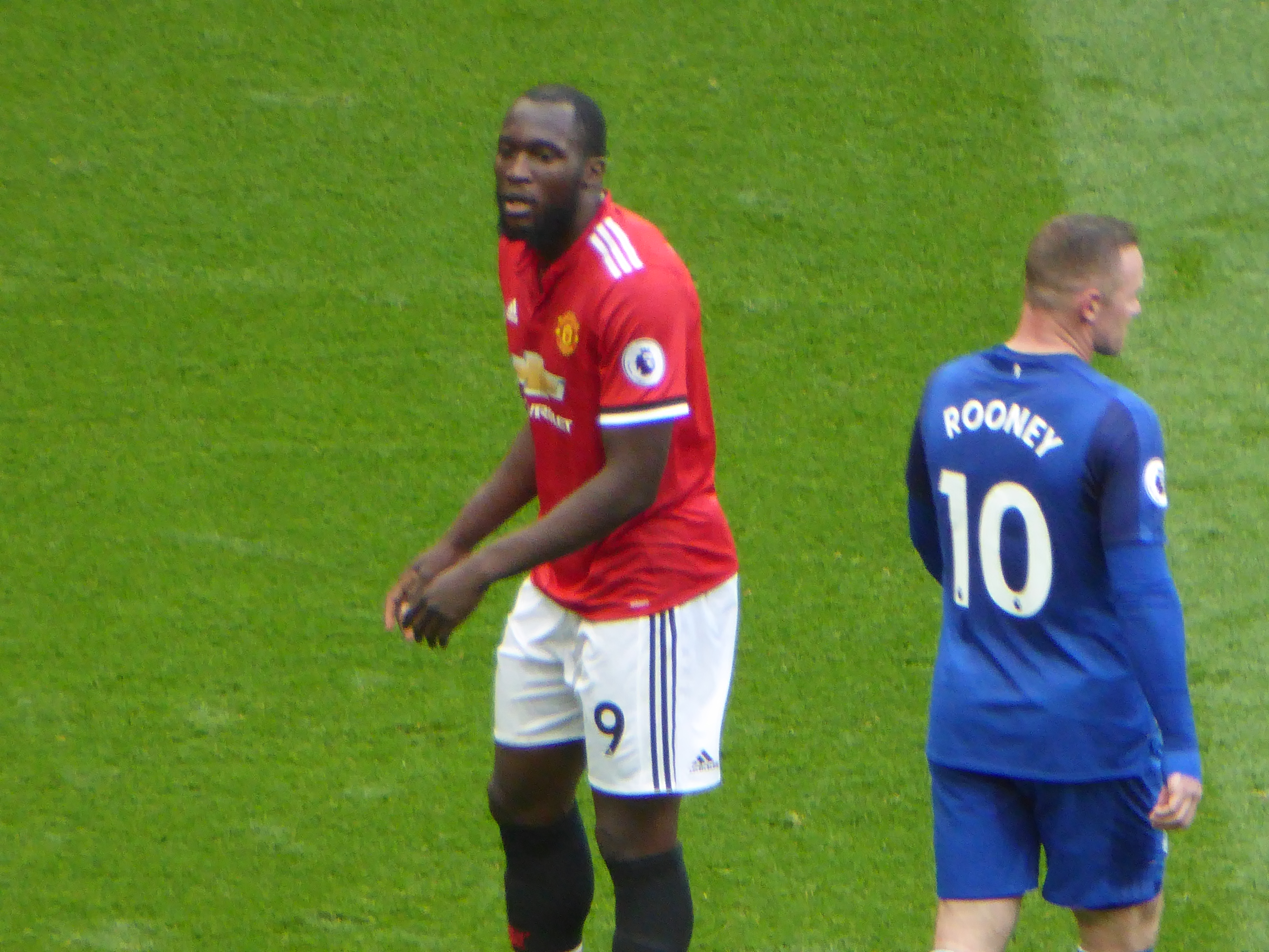 Manchester United v Everton (4-0), Premier League, Old Trafford, Manchester, Greater Manchester, England, 17 September 2017